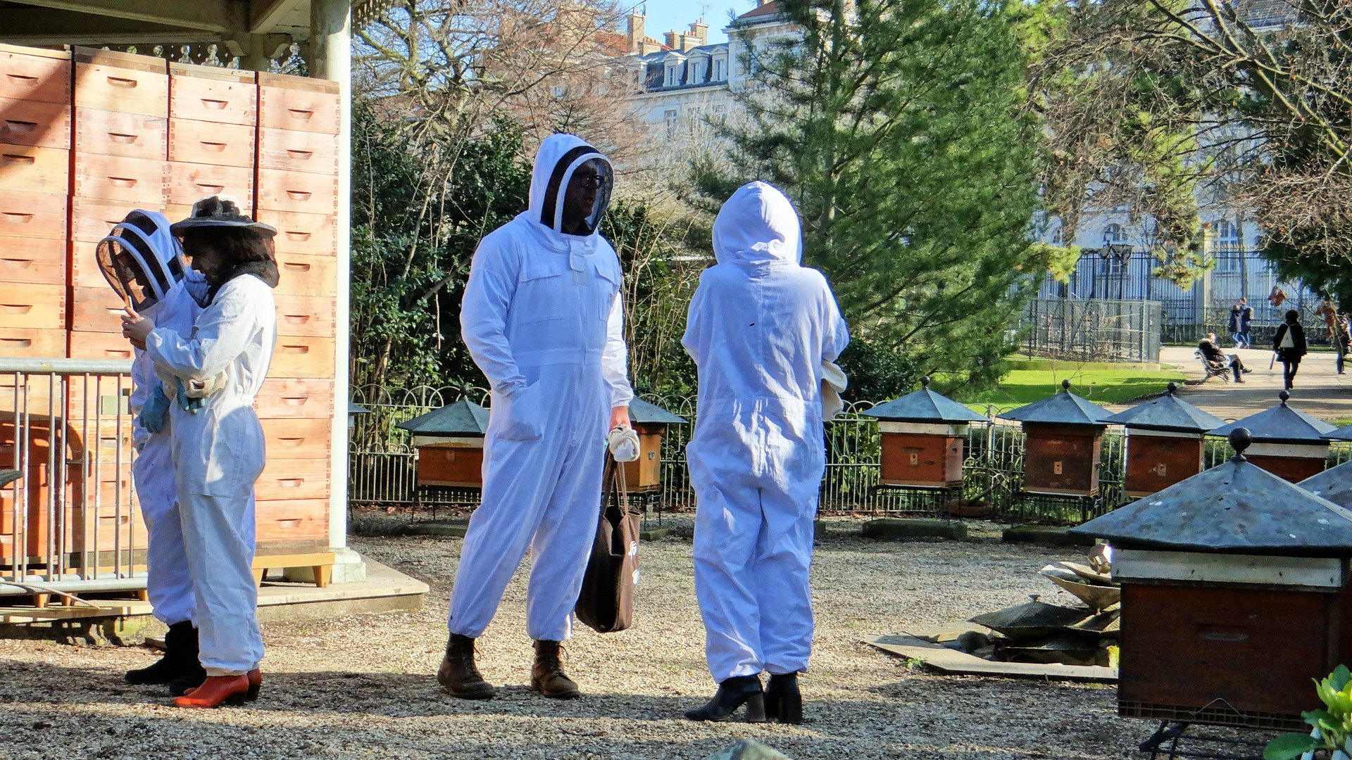 Beekeepers at apiary school of the Luxembourg garden in Paris